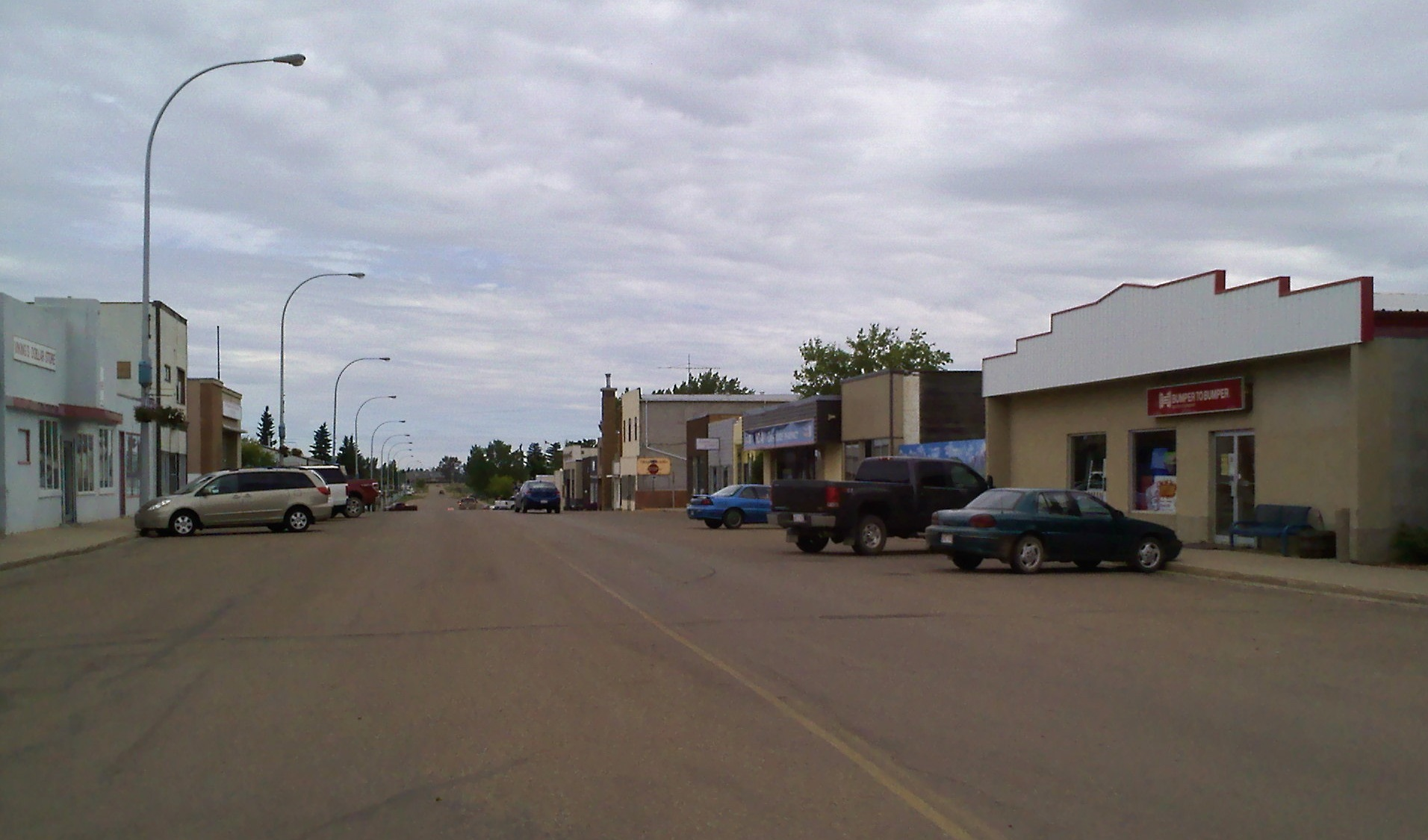 50 (Main) Street, Viking, Alberta, from its south end.